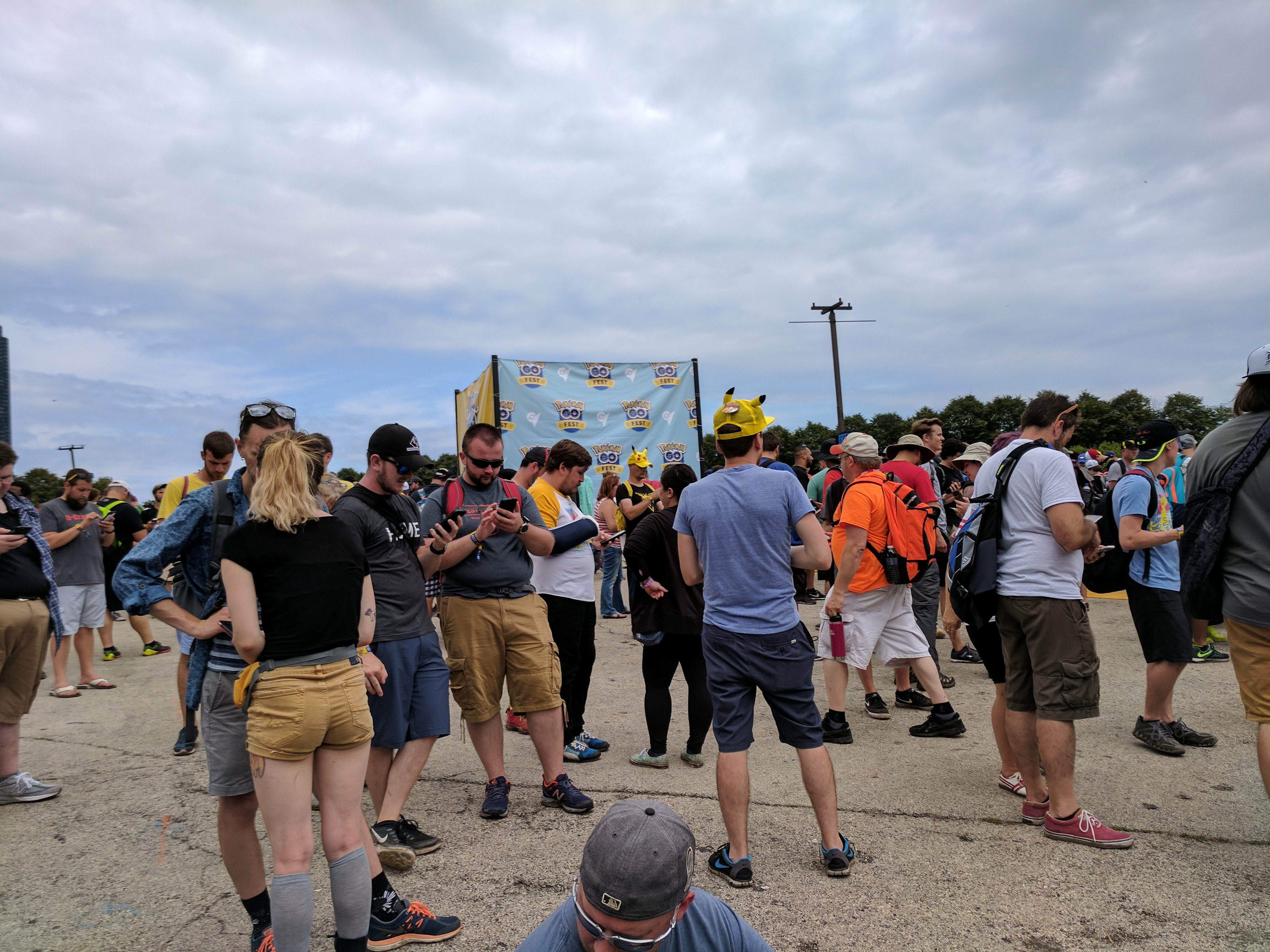 Pokemon Go players during the Pokemon Go Fest in Chicago, 22 July 2017